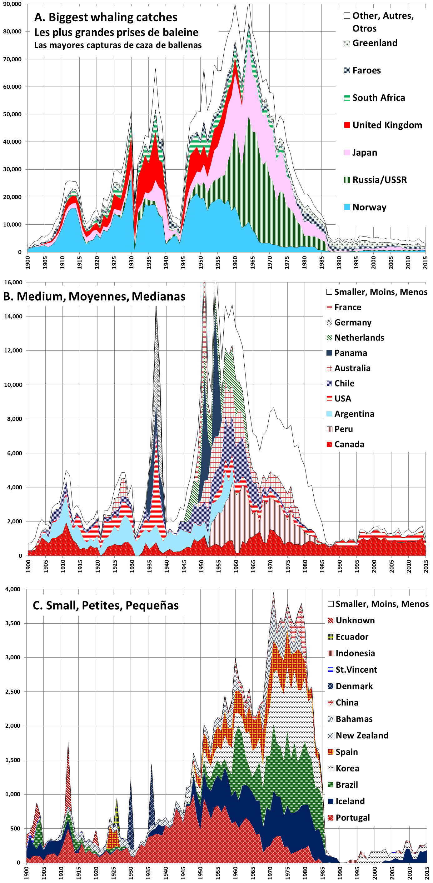 Whales caught, by year and country Sources: IWC Summary Catch Database version 6.1, July 2016,[1] which includes great whales, orcas (mostly caught by Norway and USSR), bottlenose whales (mostly Norway), pilot whales (mostly Norway in that database), and Baird's Beaked Whales (mostly Japan). This database also has some pre-1900 counts, not shown here, especially for the US back to 1848, and for Norway back to 1864, and partial data for other countries. The IWC database is supplemented by Faroese catches of pilot whales,[2] Greenland's and Canada's catches of Narwhals (data 1954-2014),[3] Belugas from multiple sources shown in the Beluga whale article, Indonesia's catches of sperm whales,[4][5] bycatch in Japan 1980-2008,[6] [7] [8] and bycatch in Korea 1996-2017.[6] [9] The IWC database includes illegal whaling from USSR and Korea.[1] This is supplemented by academic findings on Korea for 1999-2003.[10] [11] Note that most species of dolphins are omitted. Otherwise the main areas of missing data are: bycatch in other countries (generally much smaller), narwhals before 1954; belugas in Canada and USA before 1970, and in Nunavut (Canada) for all years; belugas in USSR in Bering, East Siberian and Laptev Seas and Sea of Okhotsk outside Amur River area.